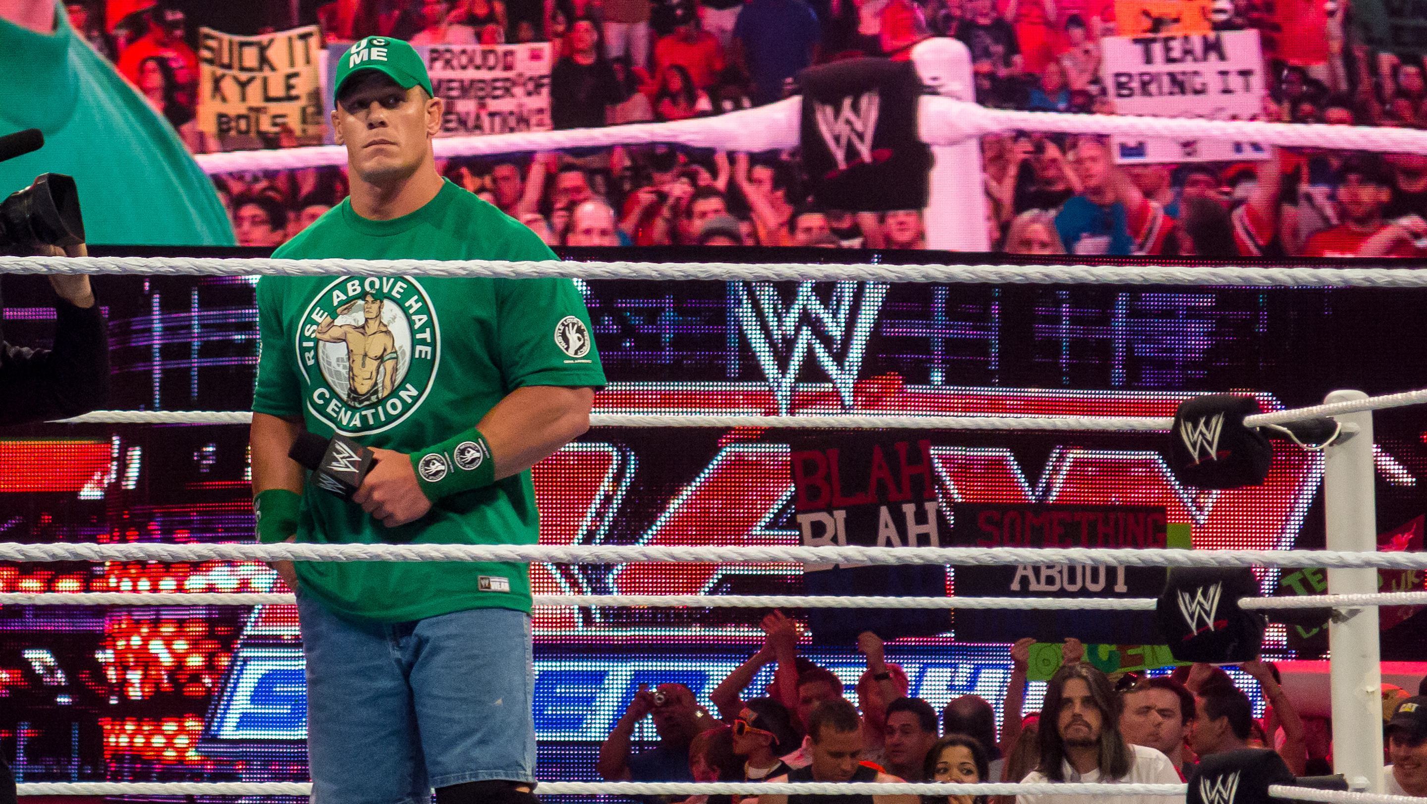 John Cena at Raw, Miami, 2 April 2012